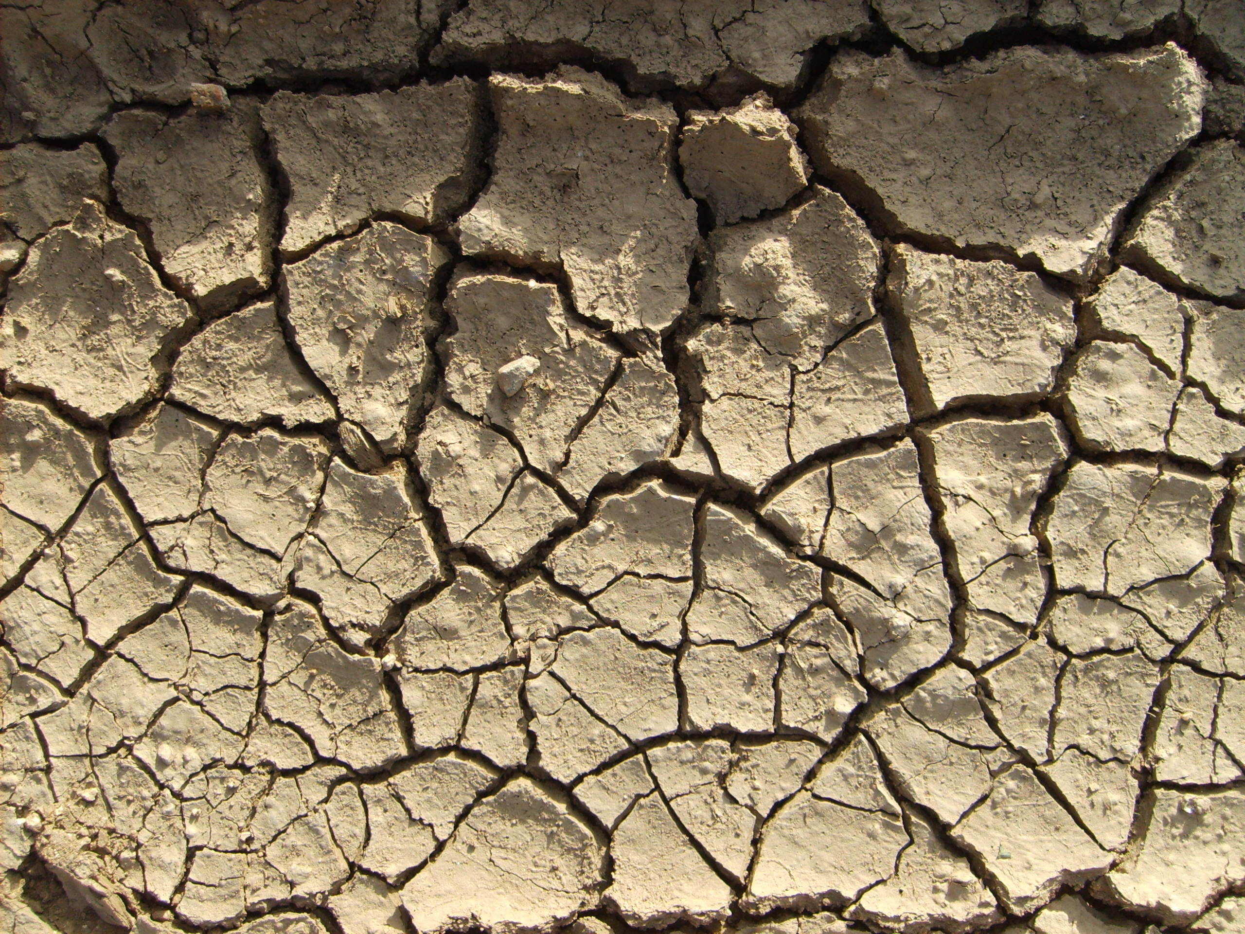 Dry mud. Photograph taken in El Quisco, Chile.